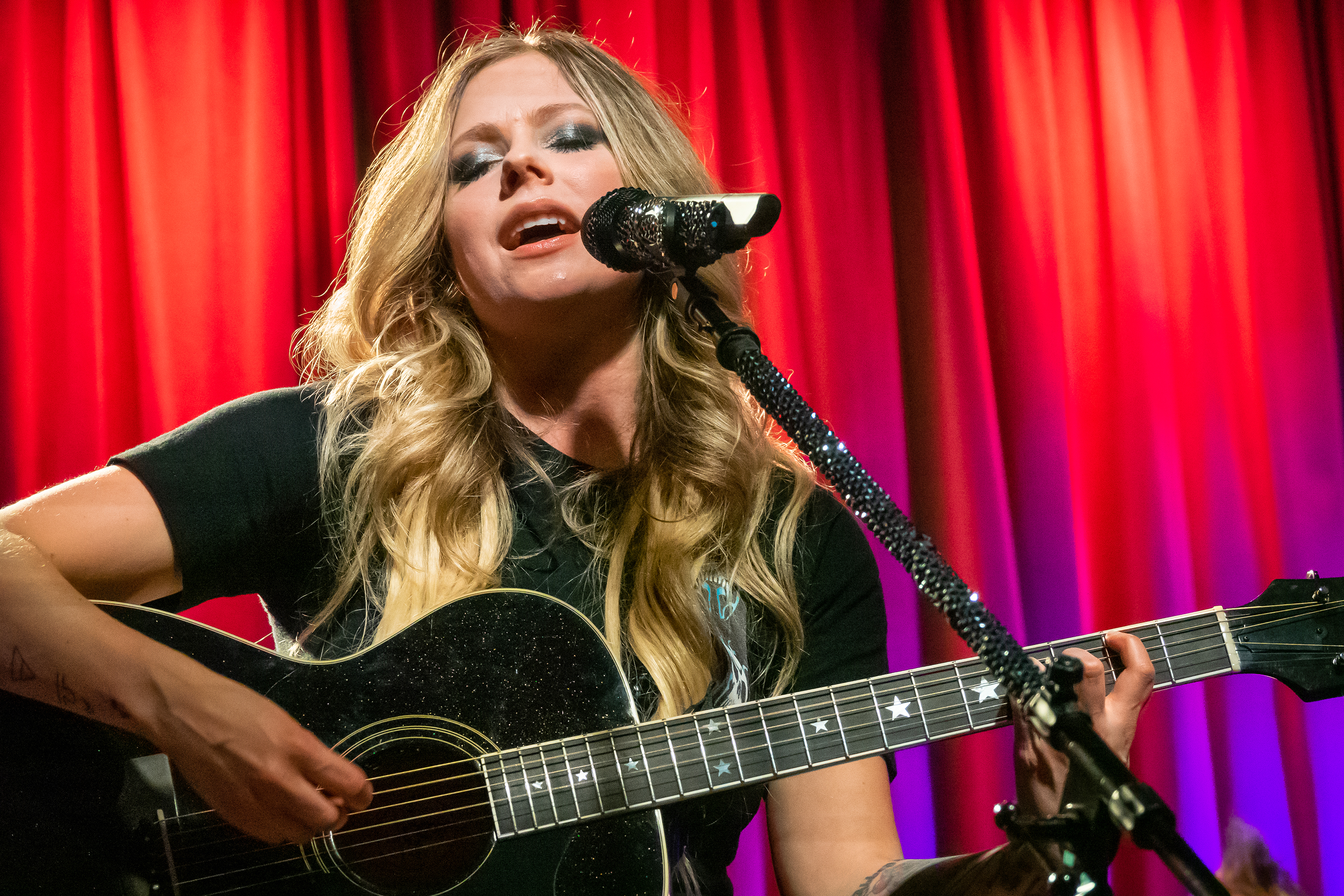 Avril Lavigne performing live at the Grammy Museum in Los Angeles on 09/05/2019.